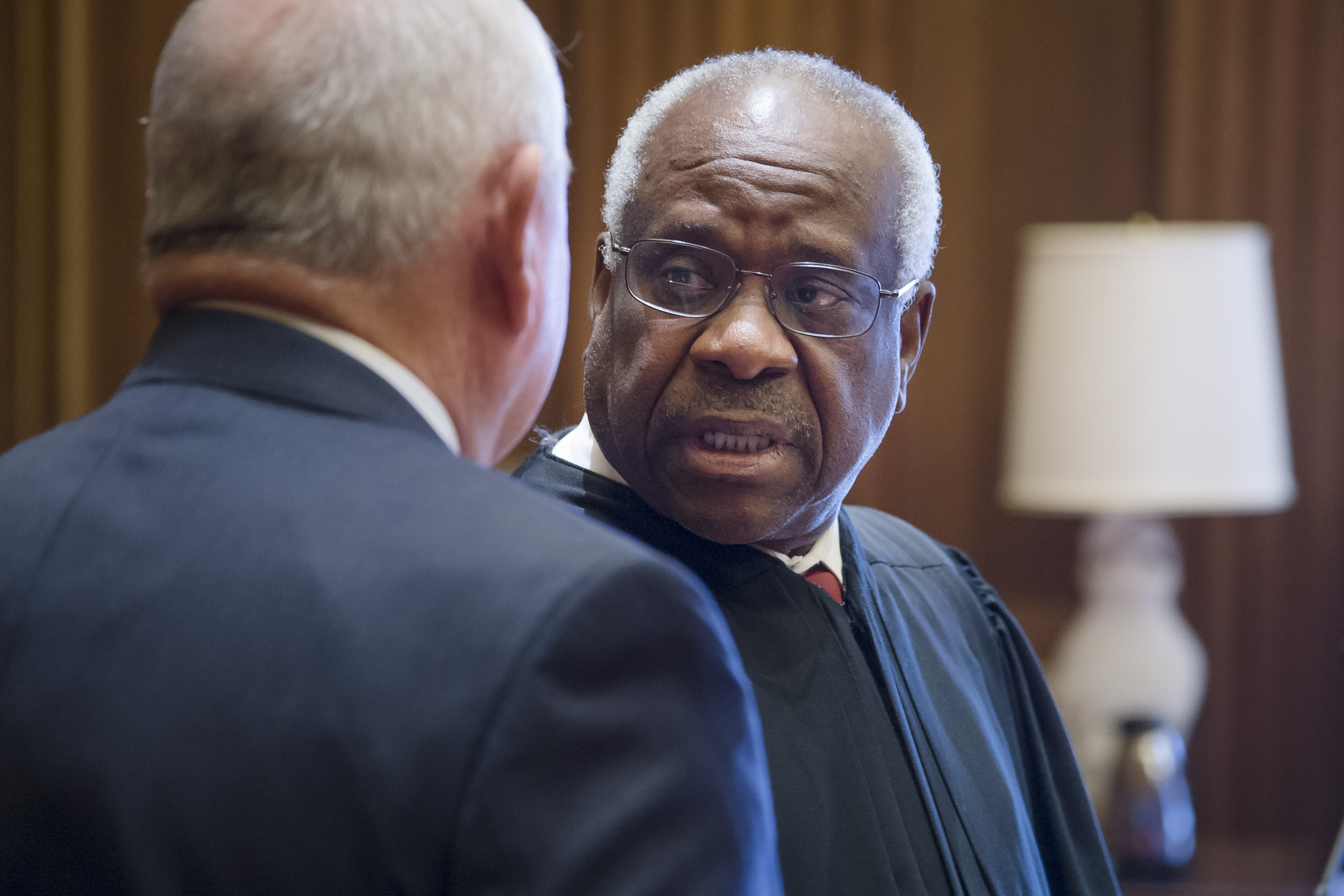 Sonny Perdue is sworn in as the 31st Secretary of Agriculture by U.S. Supreme Court Justice Clarence Thomas with his wife Mary and family April 25, 2017, at the Supreme Court in Washington, D.C.. Photo by Preston Keres